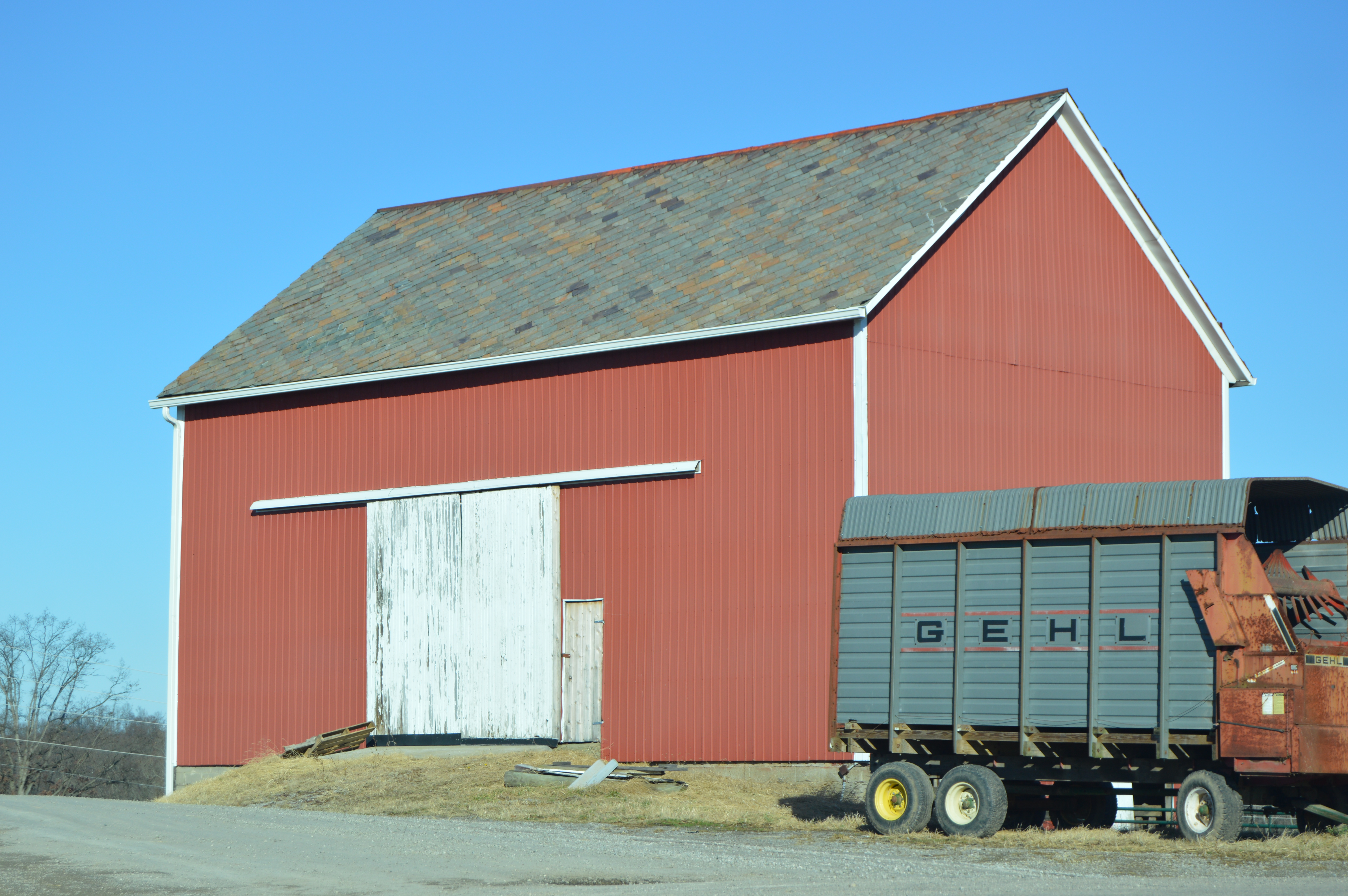 Front and southeastern side of a barn on the northeastern corner of the intersection of State Route 145 and Bracken Ridge Road west of Lewisville in Summit Township, Monroe County, Ohio, United States.